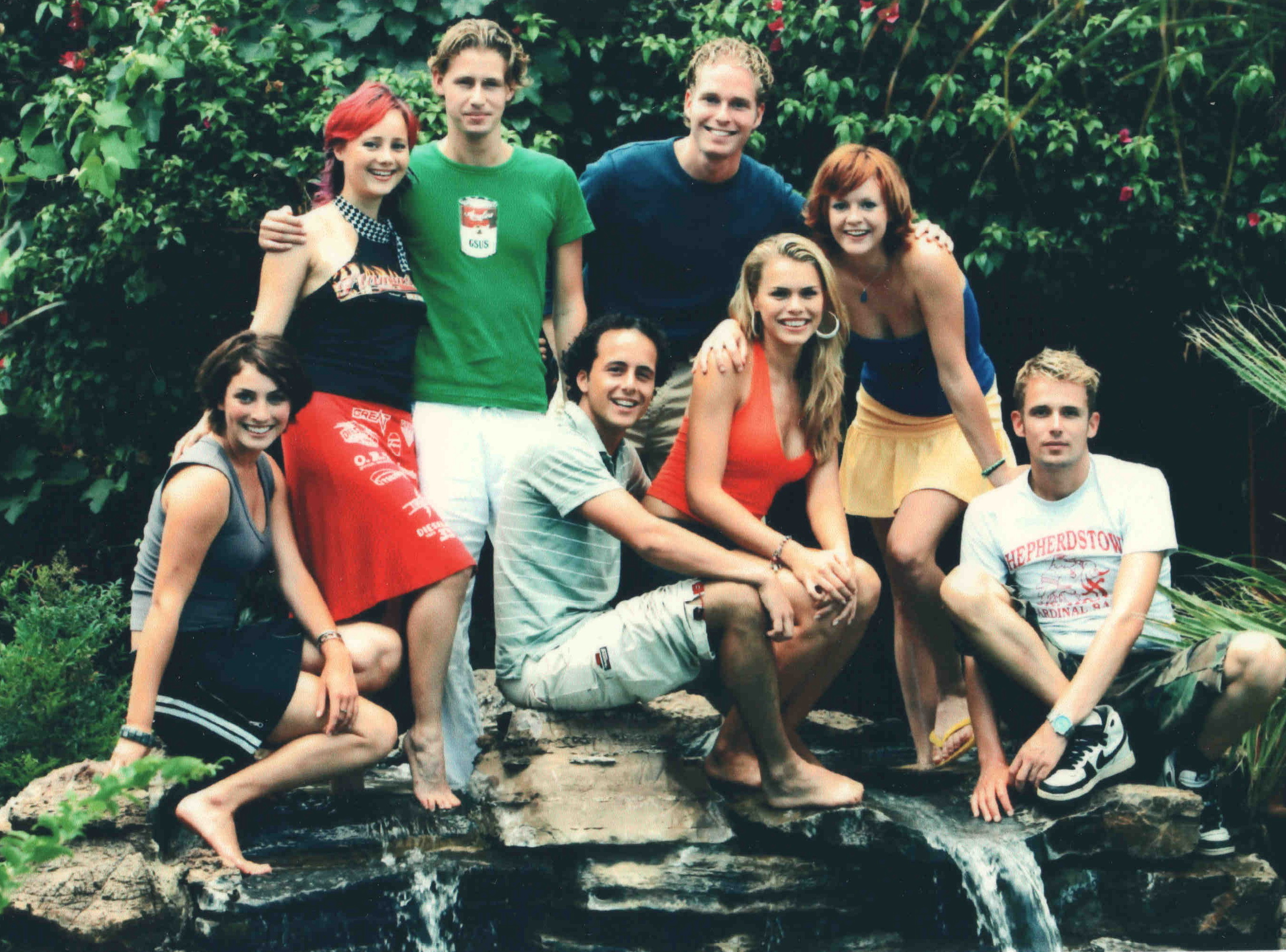 ZOOP Cast Sander Jan Klerk Nicolette van Dam Patric Martens